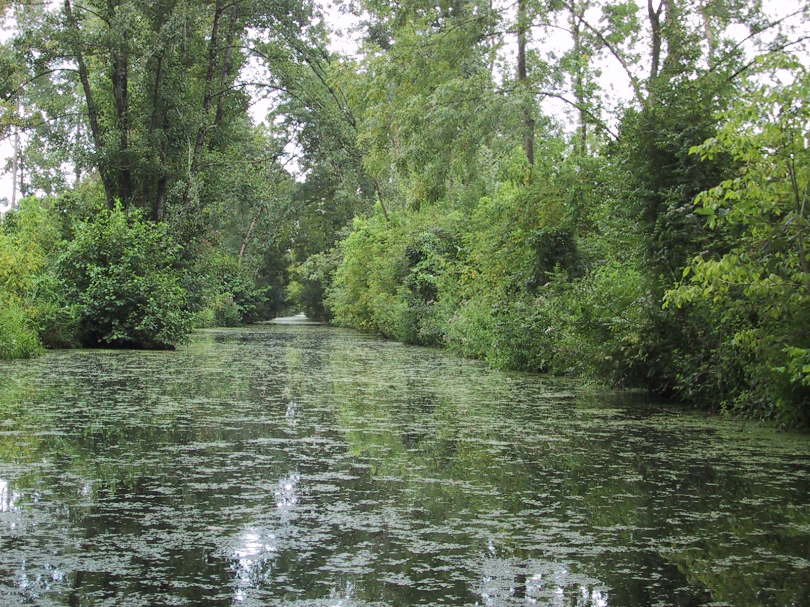 Canal in the Marais Poitevin (Venise Vert) in Westerm France